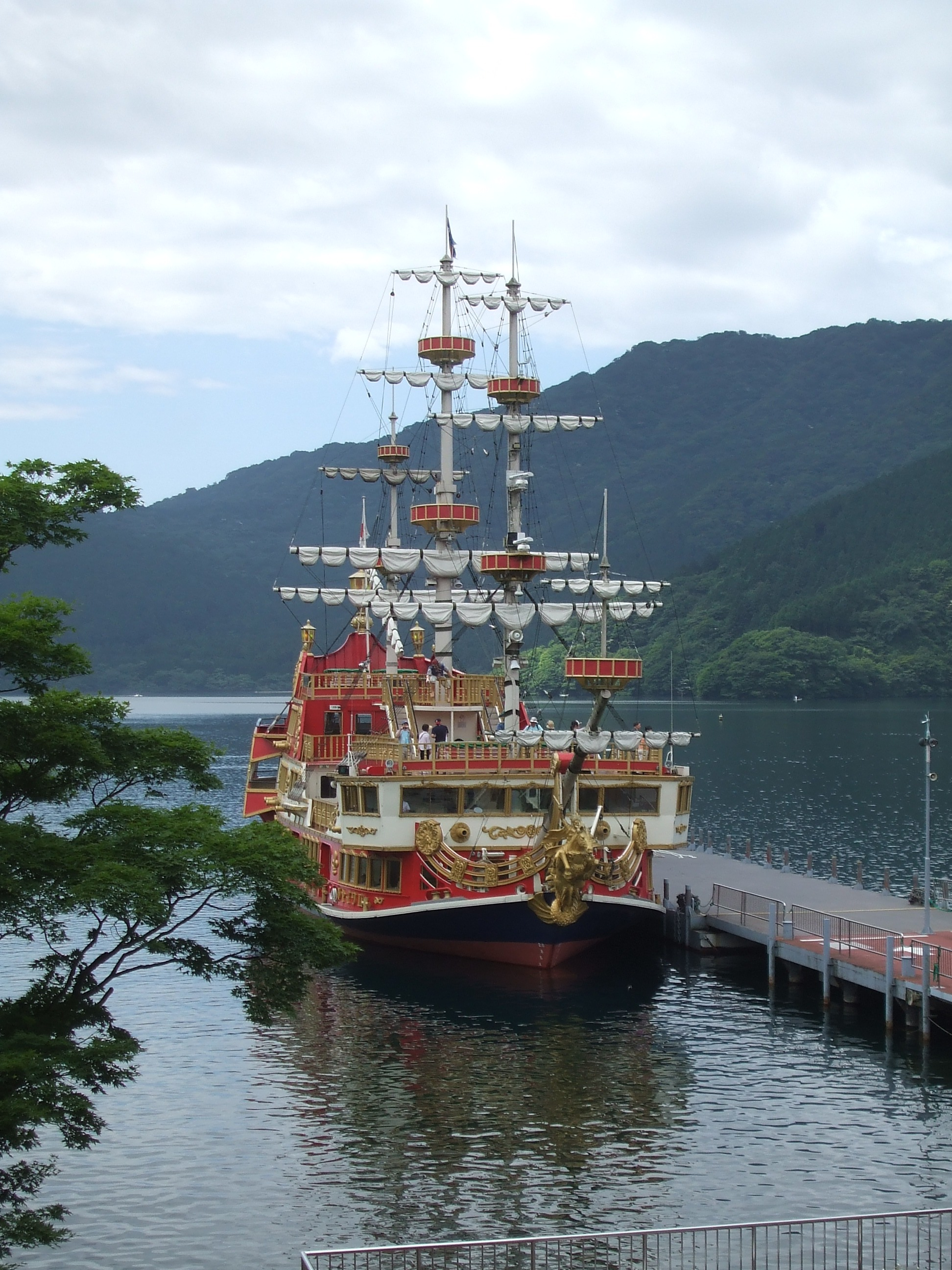 Hakone Sightseeing Cruise in Japan, a sightseeing ship outfitted as a pirate ship.